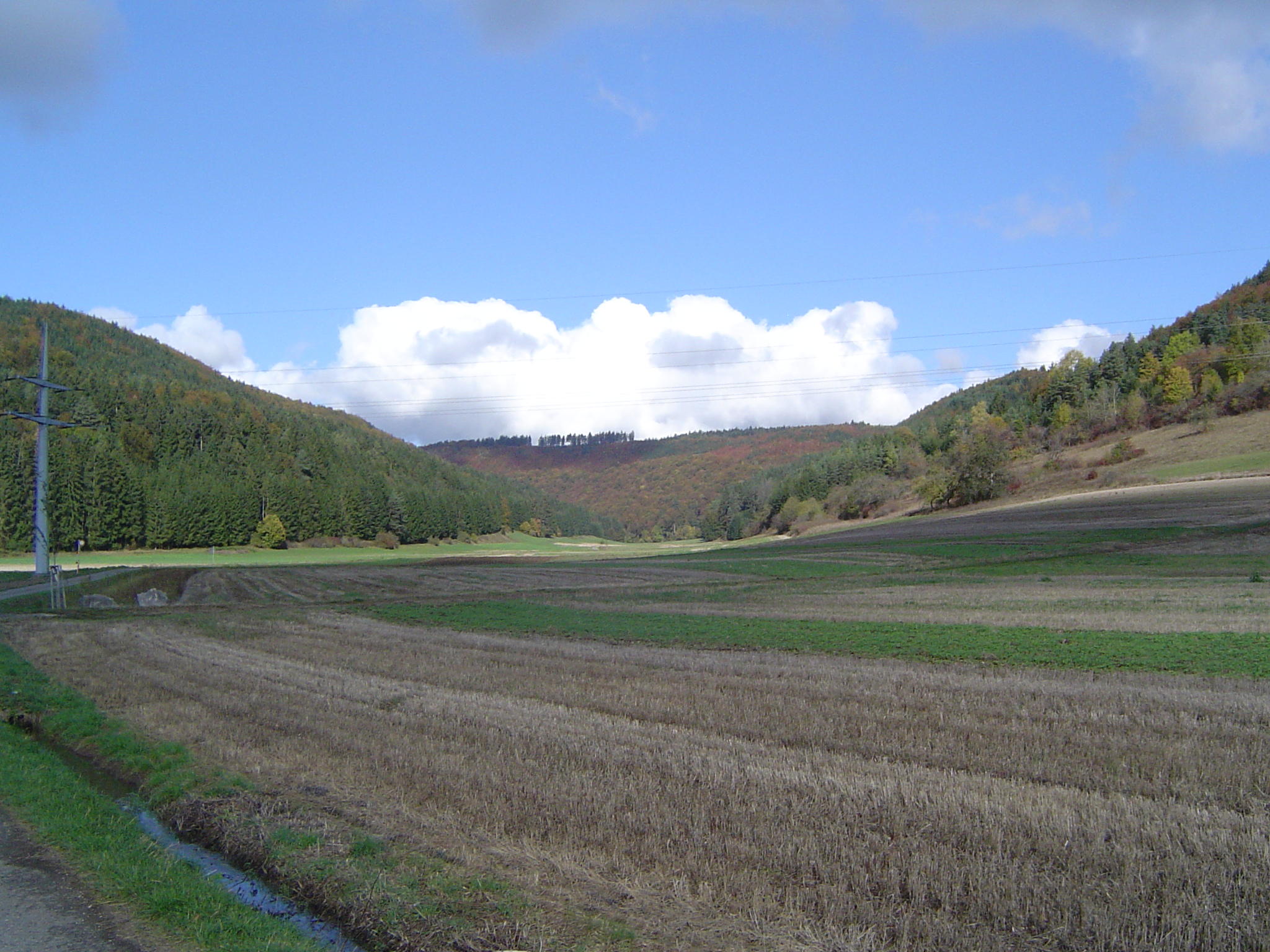 Ursental